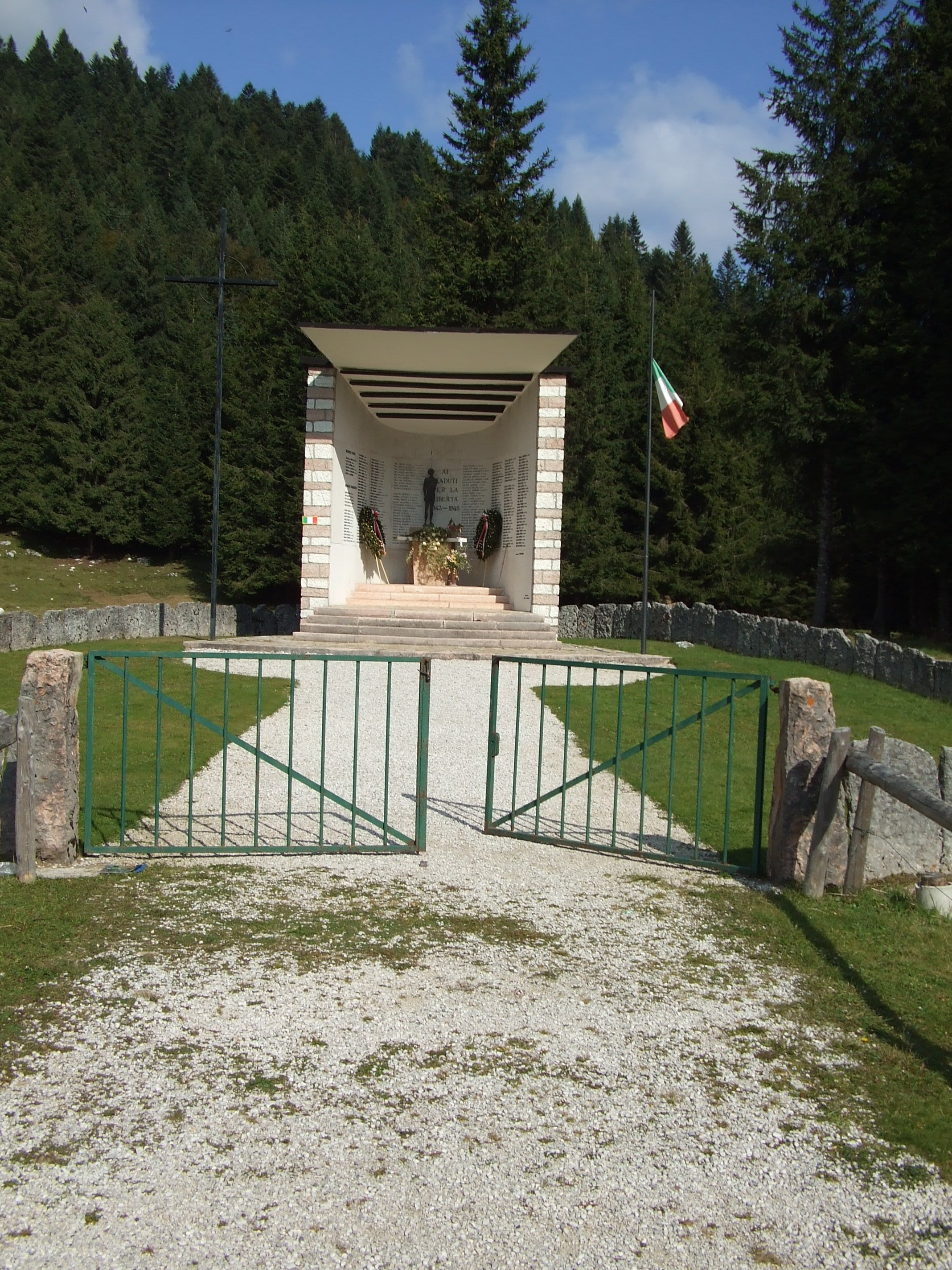 Granezza, Altopiano di Asiago, Veneto, Northern Italy. Monument to the partisans